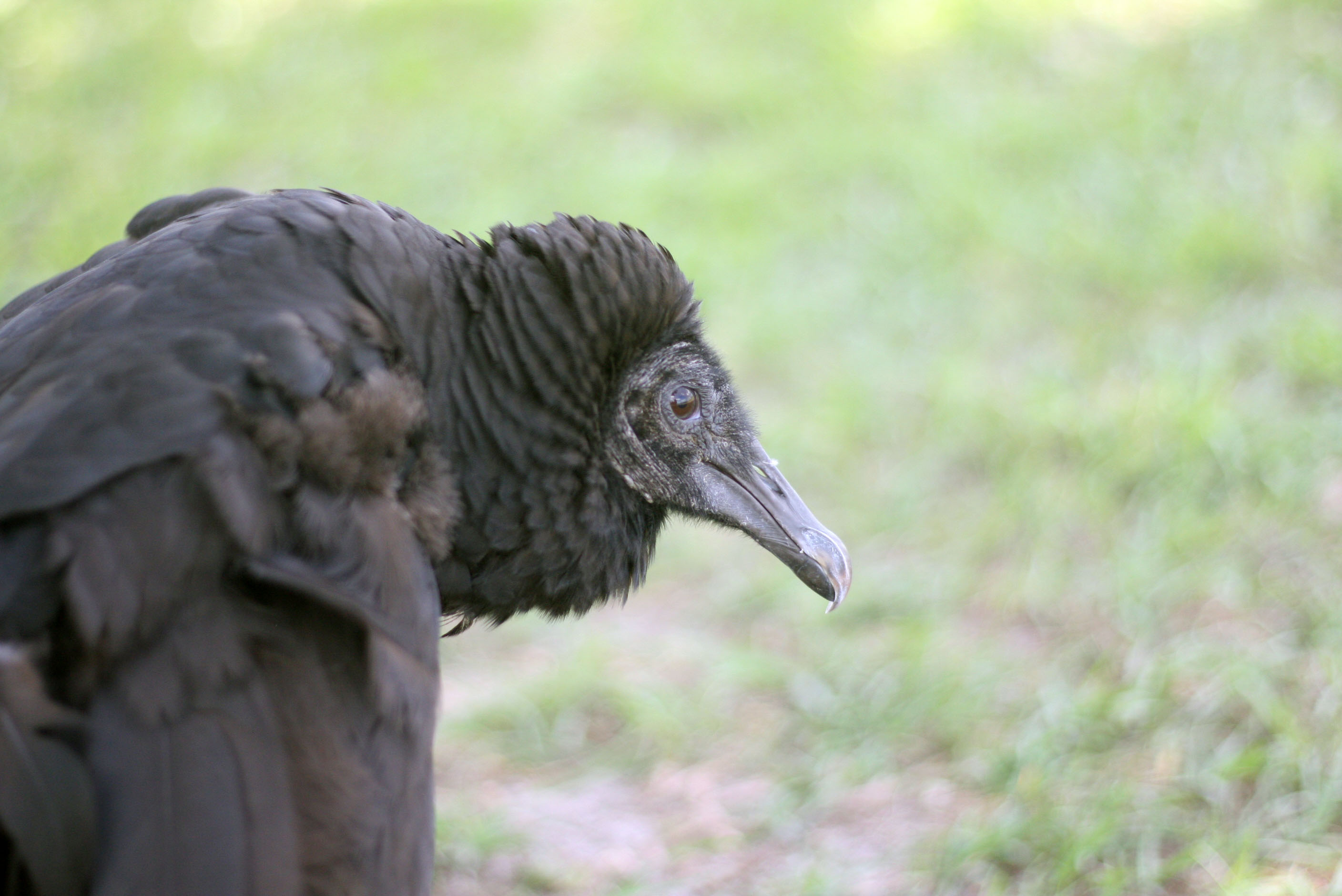 Juvenile Black Vulture